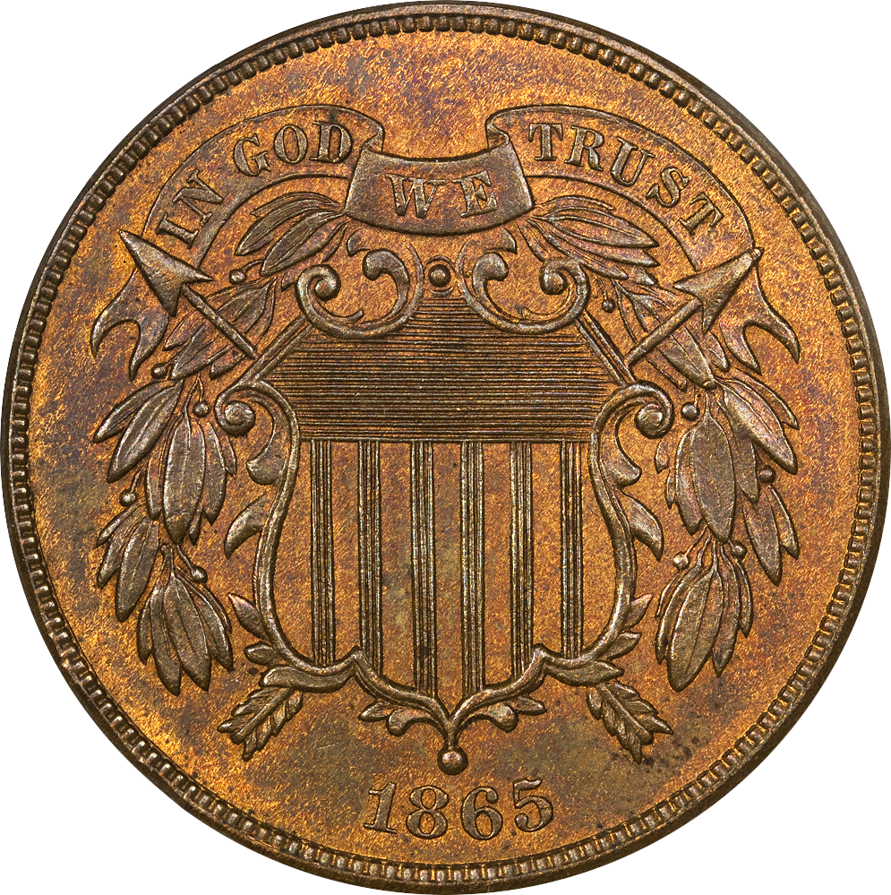 The obverse of an 1865 two cent piece. This coin is graded and certified by NGC as uncirculated MS65RB (red-brown).